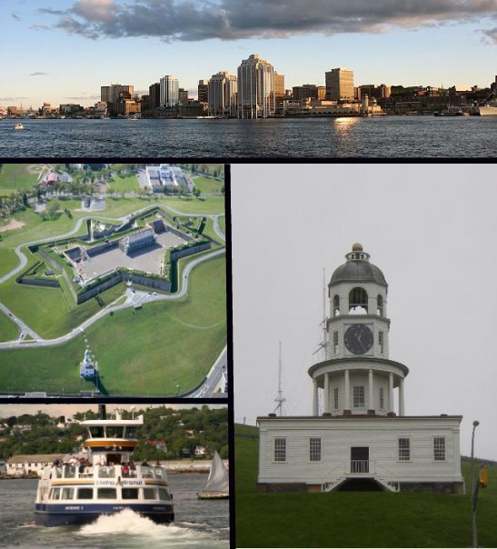 pictures of Halifax icons.